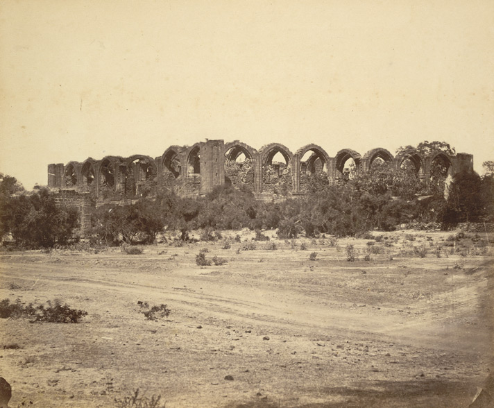 Medium: Photographic Print Henry Cousens' Note: "The unfinished tomb of Ali (II) Adil Shah lies a short distance to the north of the citadel and the Gagan Mahal. The great high basement upon which the building stands is 215 feet square...The most peculiar characteristic of the building are its arches. They are purely Gothic in outline, being struck from two centres with the curves continued up to the crown....On a raised platform in the inner enclosure is the tomb of Ali Adil Shah..."